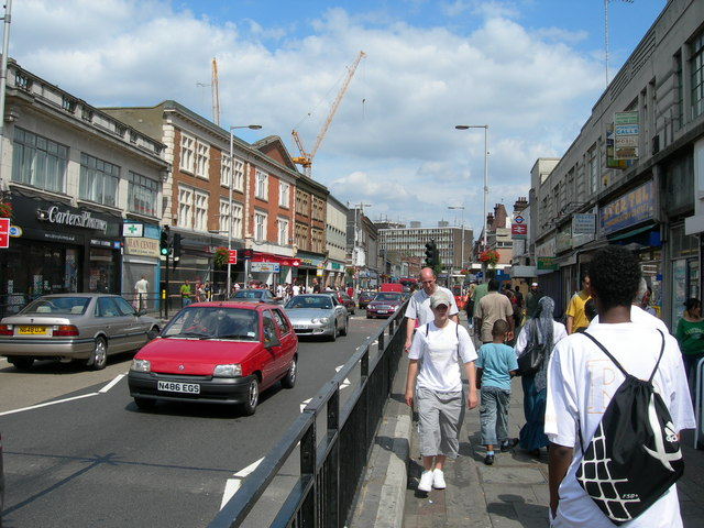 High Road, Wembley (2) Outside Wembley Central station.